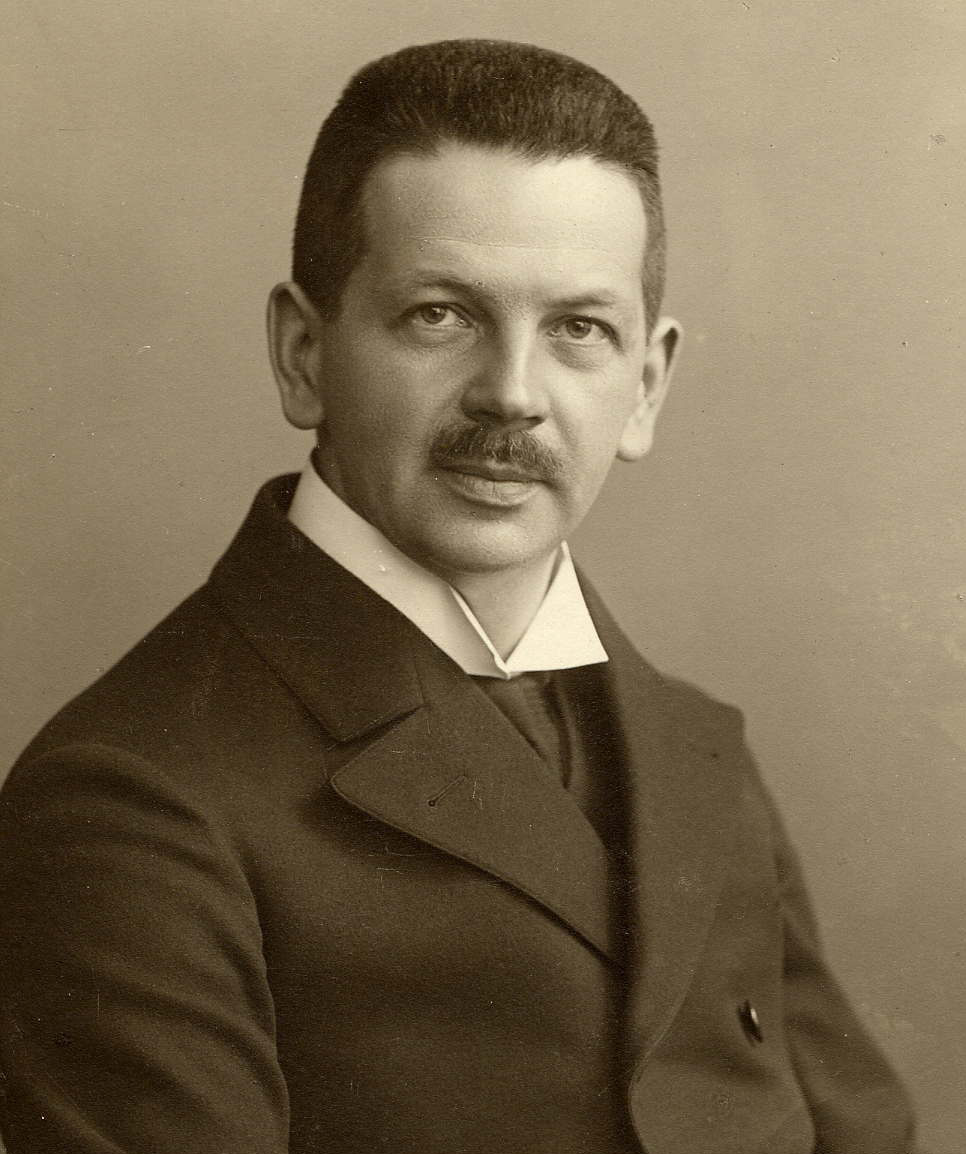 Professor Moritz Weber, Technical University of Berlin